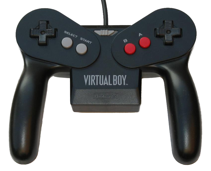 Photograph of my Virtual Boy controller. (modified to remove background)